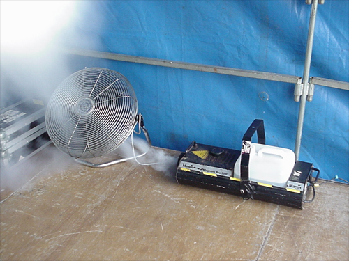 Mandrilloptere use with Martin MAGNUM Pro-2000 smoke generator